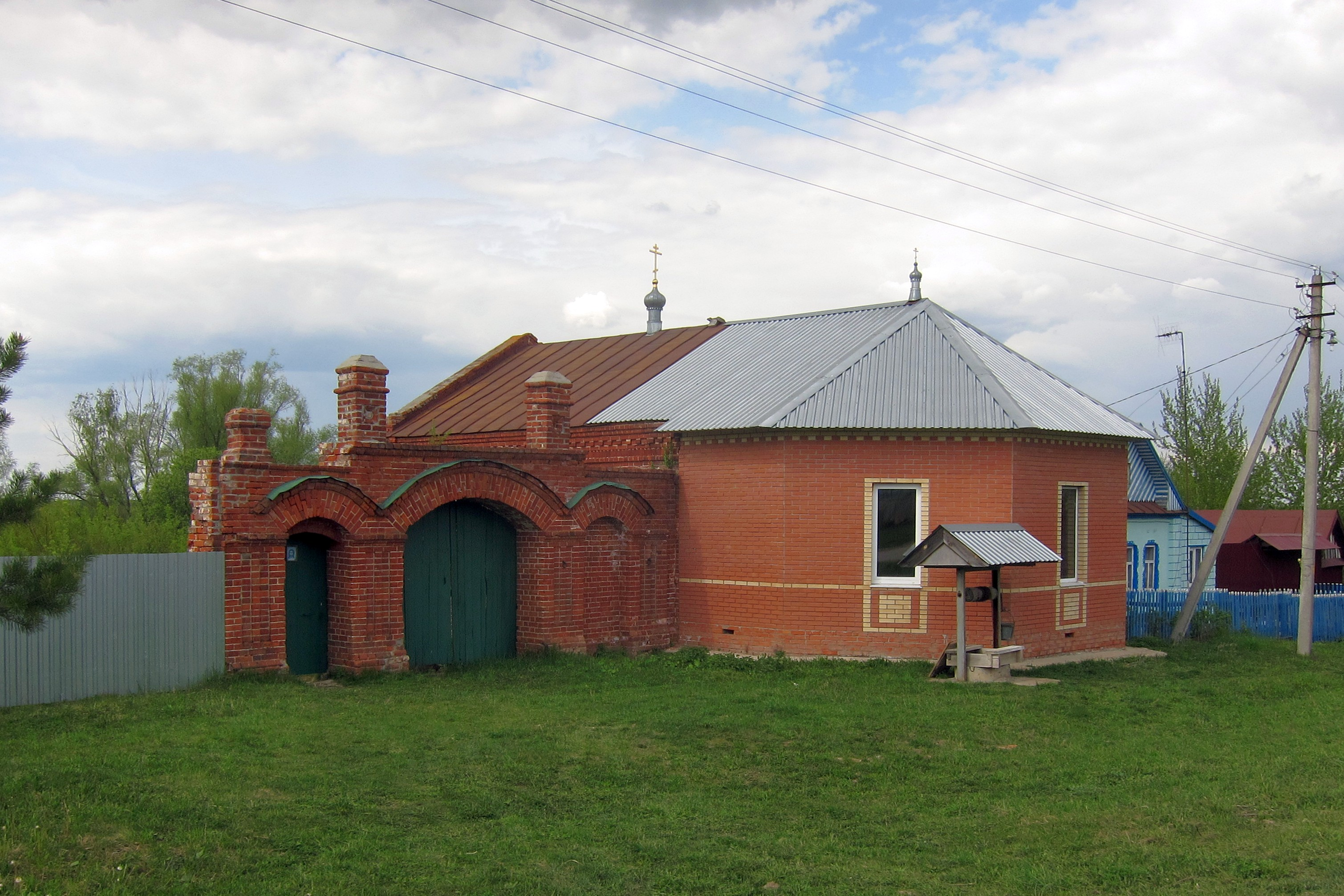 Church of the Transfiguration. Сheshlama village, Chuvashiya, Russia Чӑвашла: Турă сăн-сăпачĕ улшăнни чиркĕвĕ (Чашлама, Куславкка районĕ)